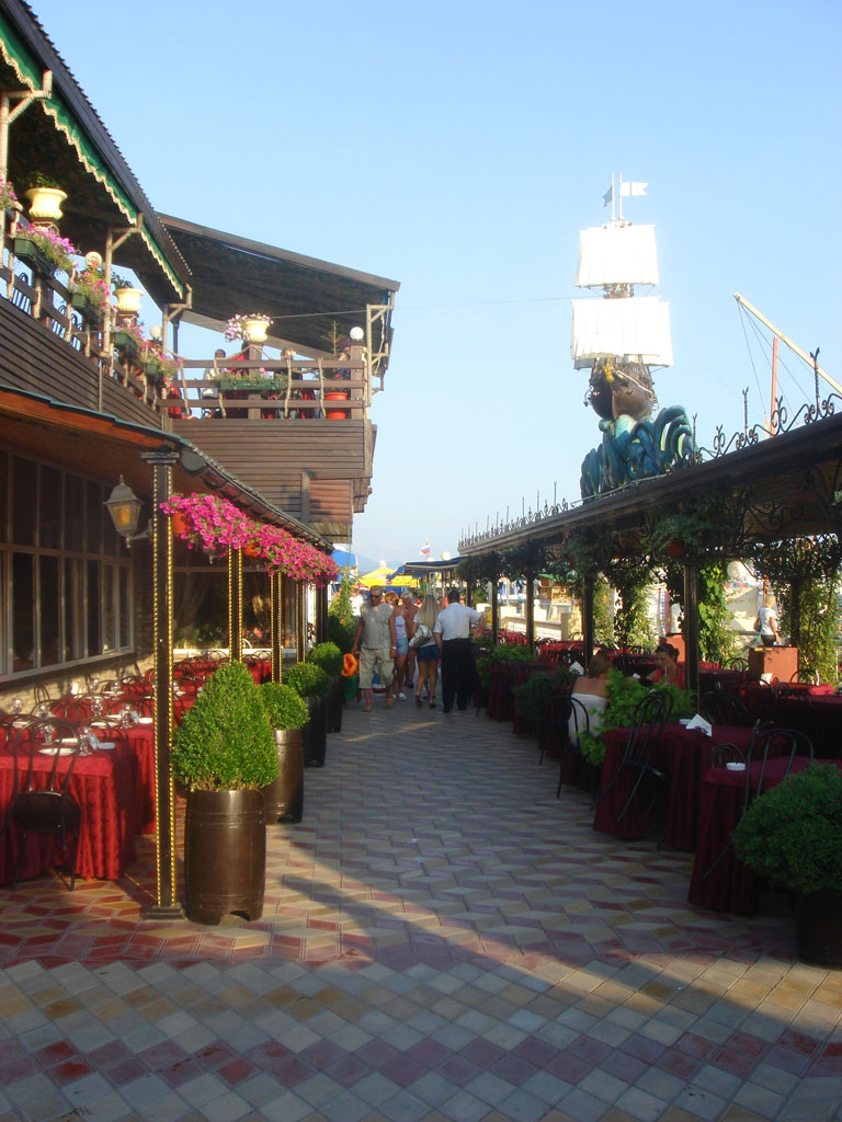 Dagomys, Sochi - "Chernomor" restaurant